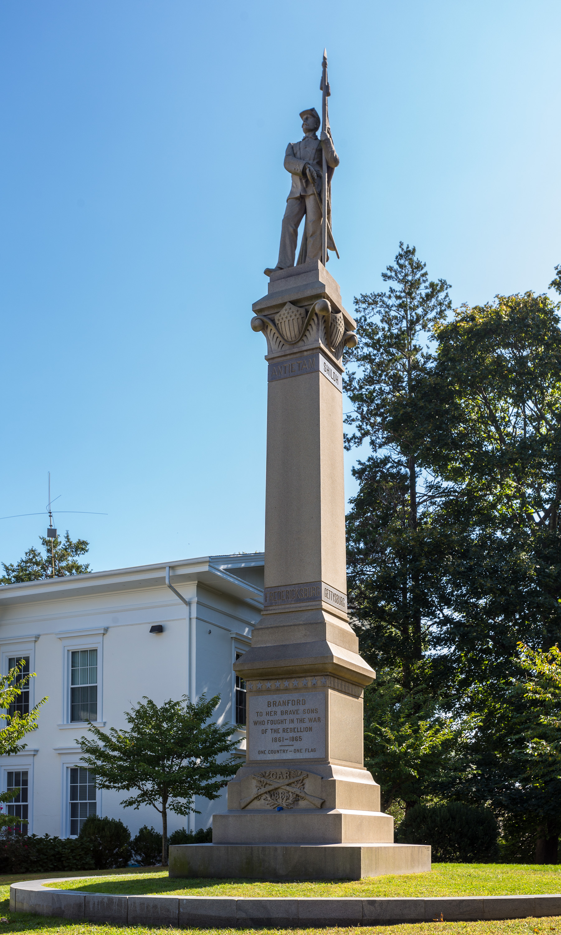 Soldiers Monument, Town Green 1019 Main Street Branford, CT